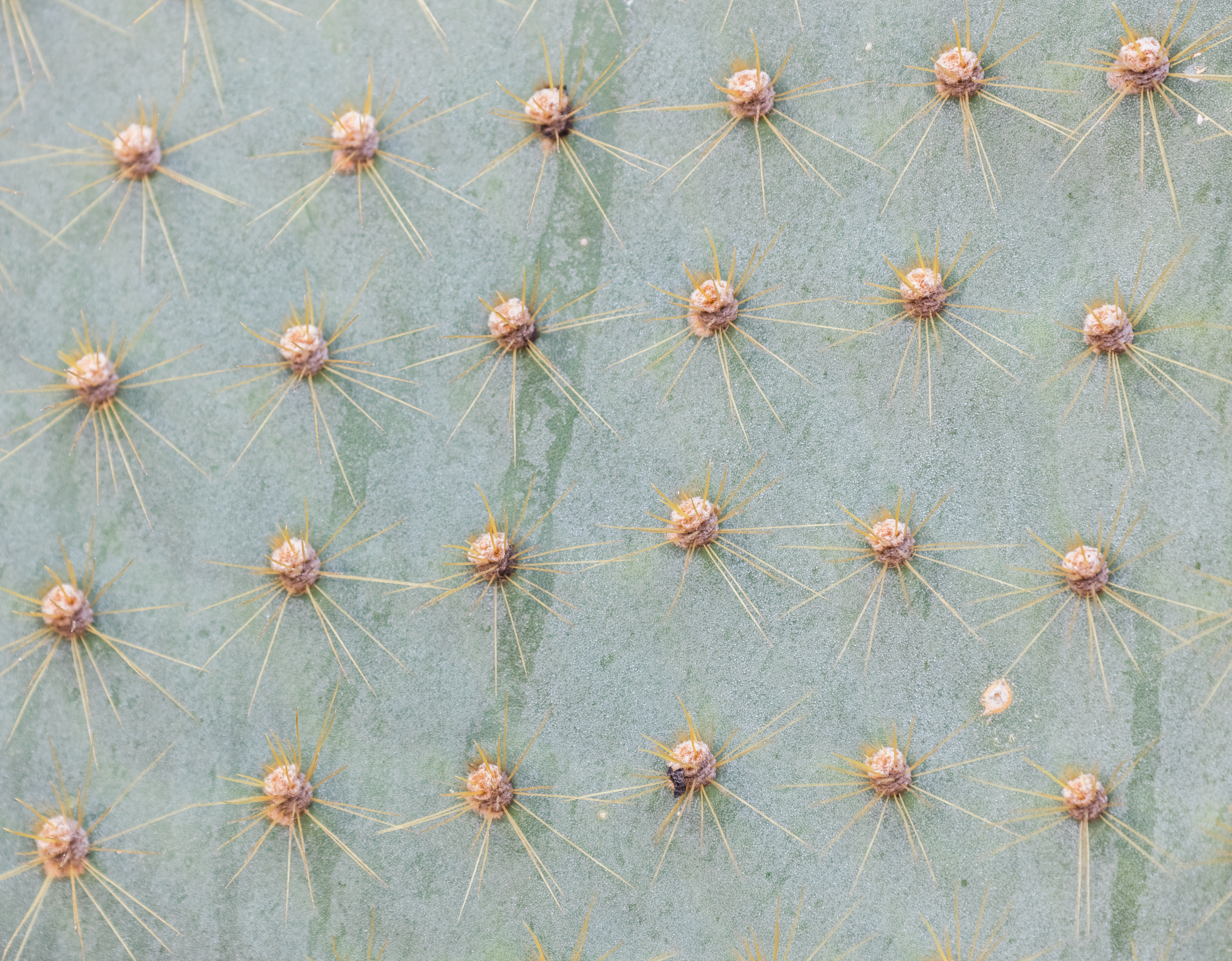 Opuntia echios, Santa Cruz Island, Galapagos Islands, Ecuador